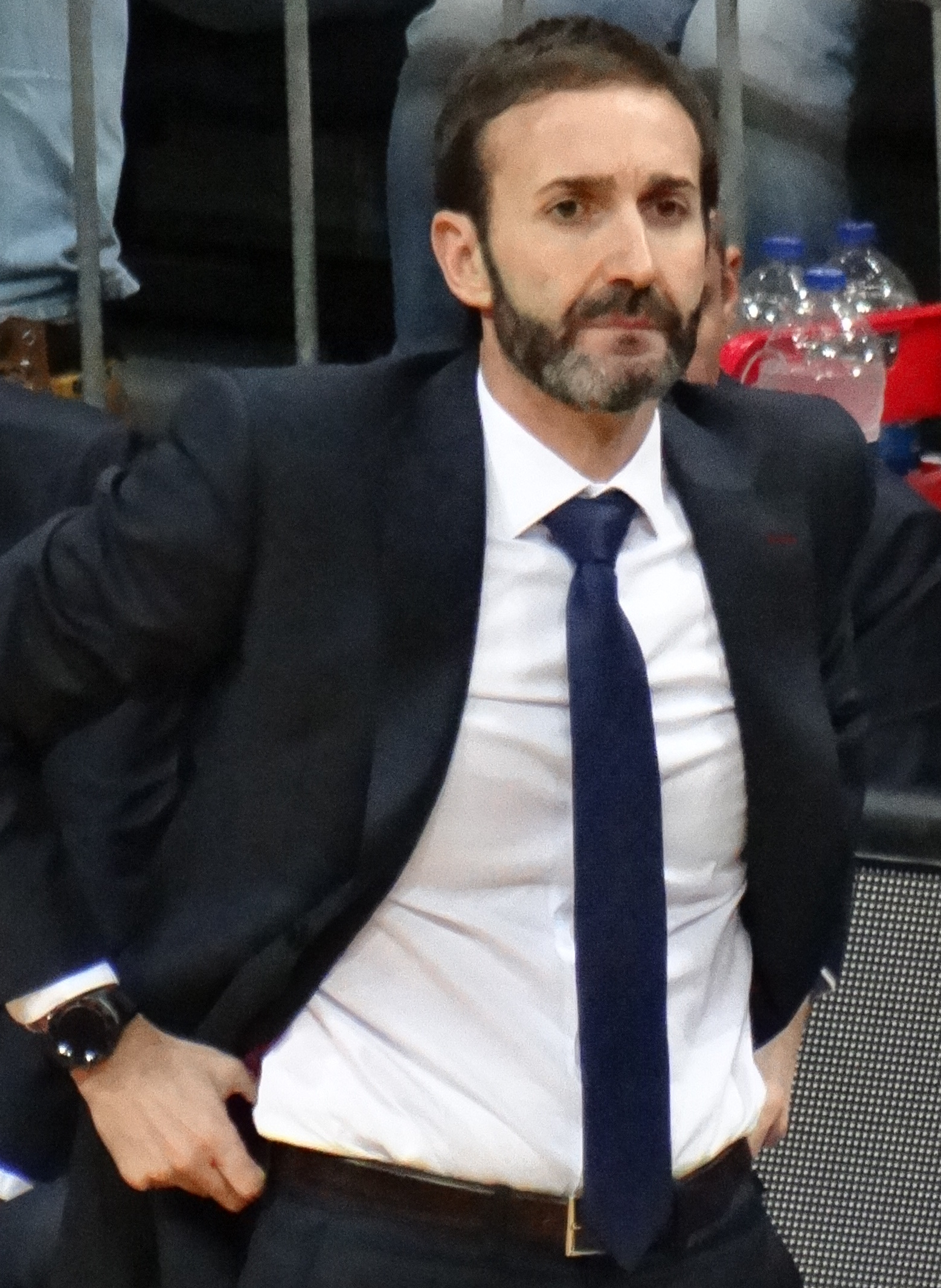 Sito Alonso FC Barcelona Bàsquet 20180126